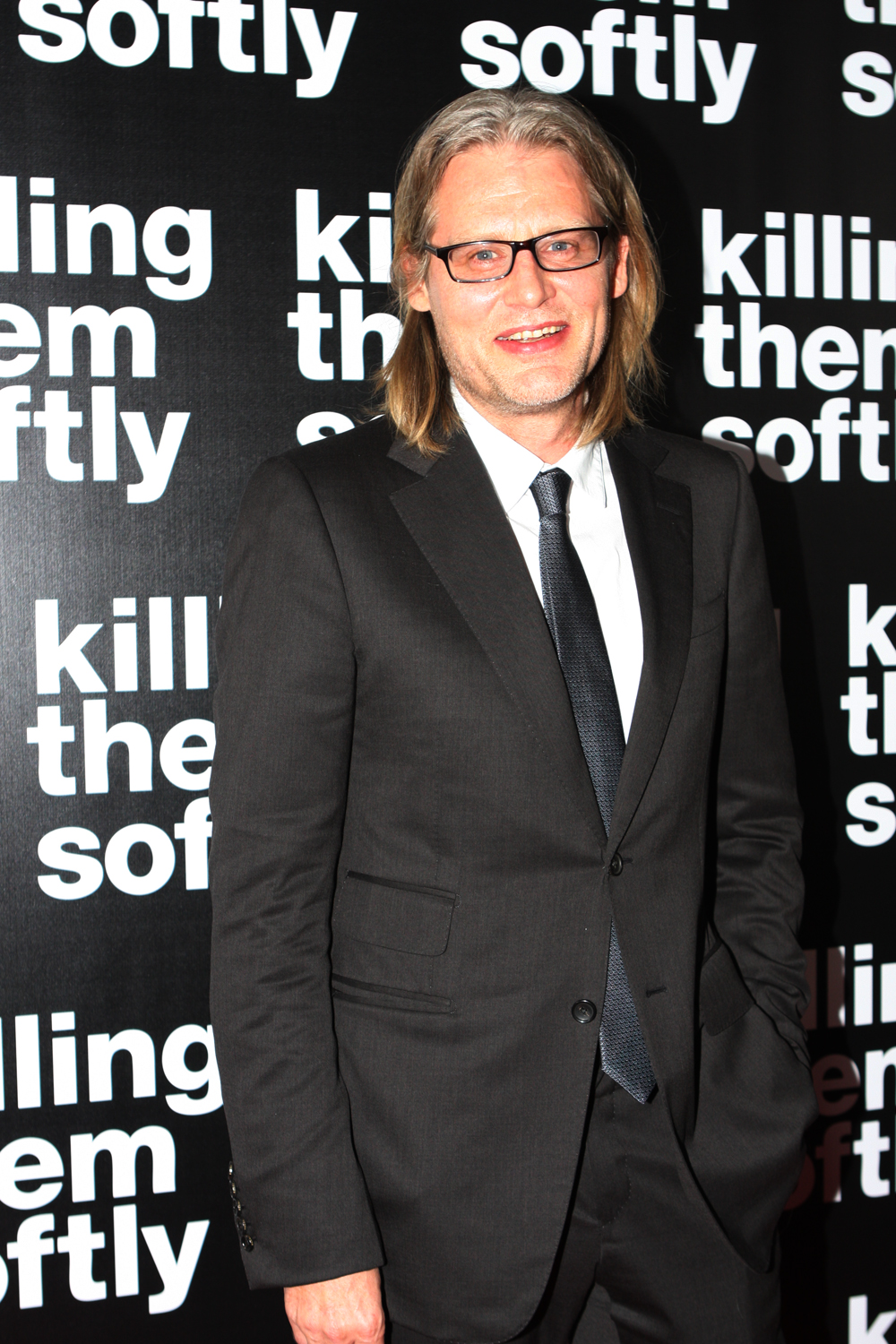 Killing Then Softly movie premiere at Dendy Opera Quays